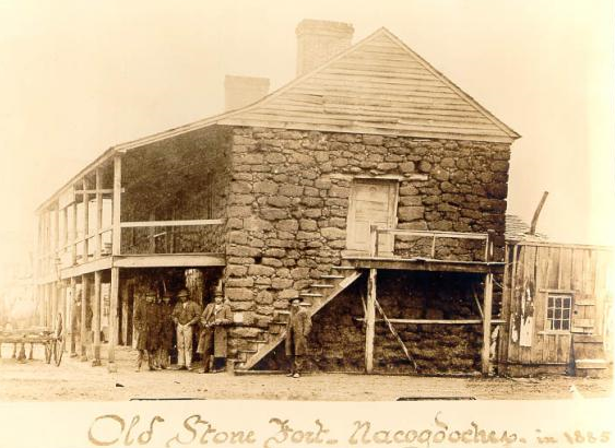 Sepia-toned painting created in Photoshop based on B&W copy photo of original in the collections of the University of Texas at Arlington; digital image published online at: - The Portal to Texas History, University of North Texas Libraries - accessed December 14, 2010.